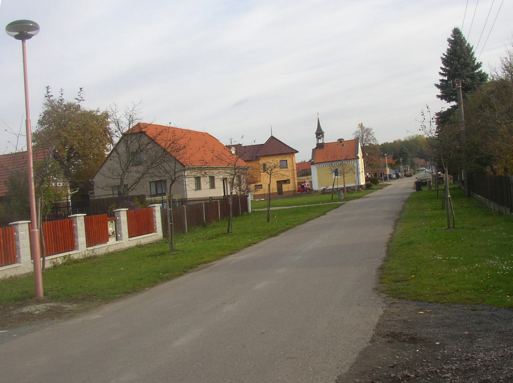 Main street in Spojil, Pardubice District, Czech Republic. A view towards northeast.